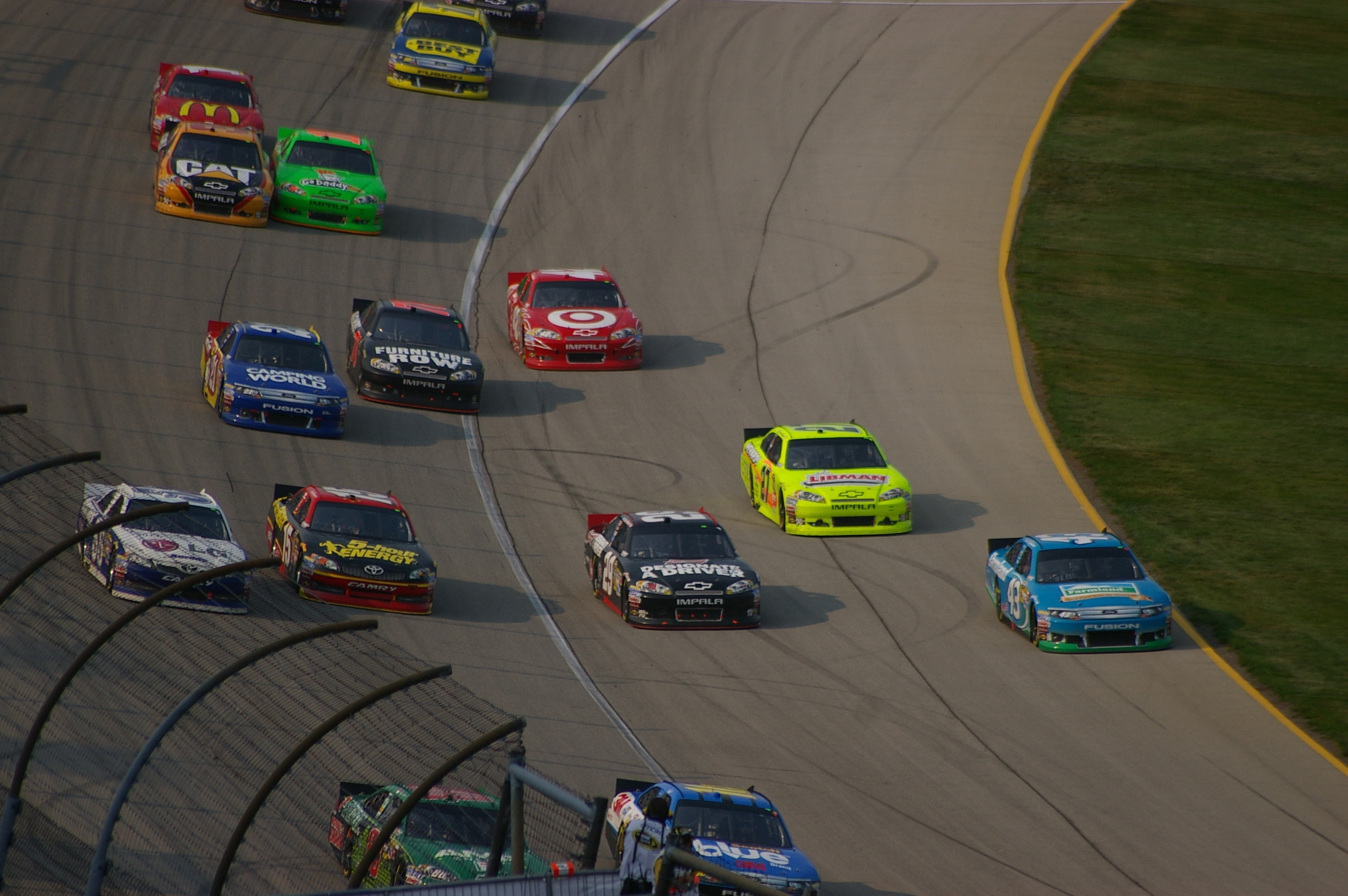 Race action on the frontstretch at Chicagoland Speedway in the Chase Race 2012.